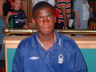 Photo of Craig Westcarr at Nottingham Forest, taken in 2002. Taken with permission from